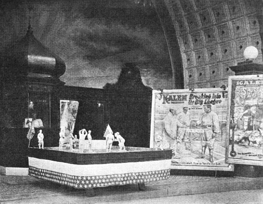 Entrance to the Saenger Theater, Shreveport, Louisiana. Display advertises "Breaking into the Big League" a 1913 feature film from the Kalem Company.